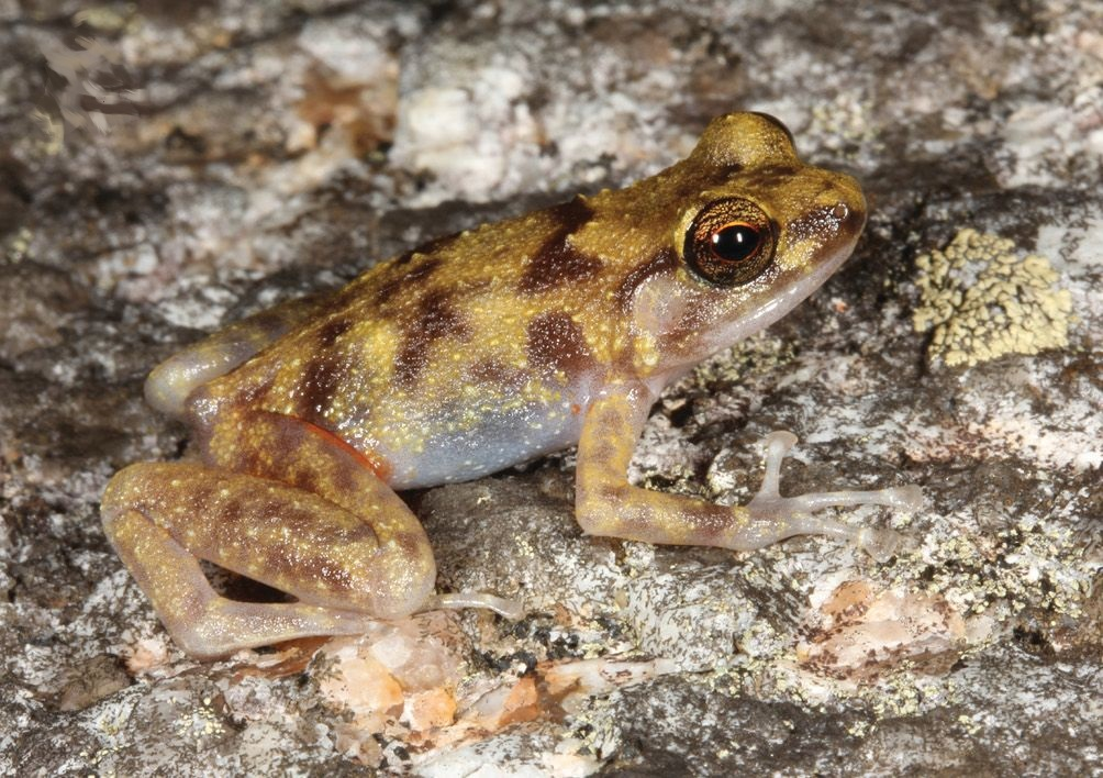 Cophixalus petrophilus male